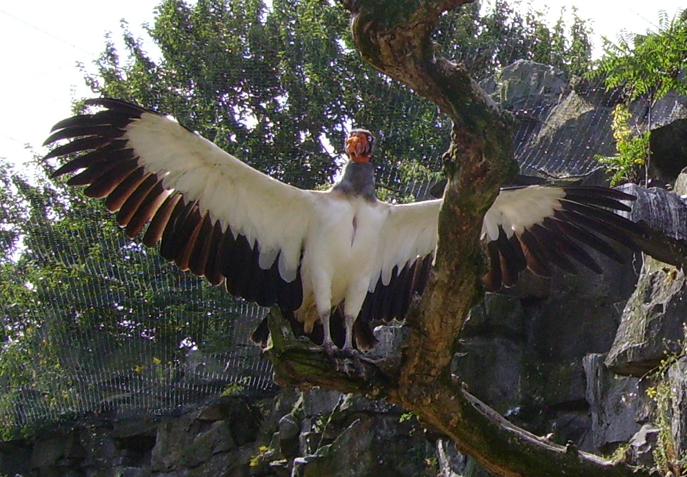 King Vulture Tierpark Berlin